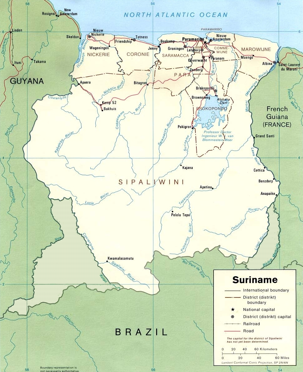 Edited CIA map of Suriname.